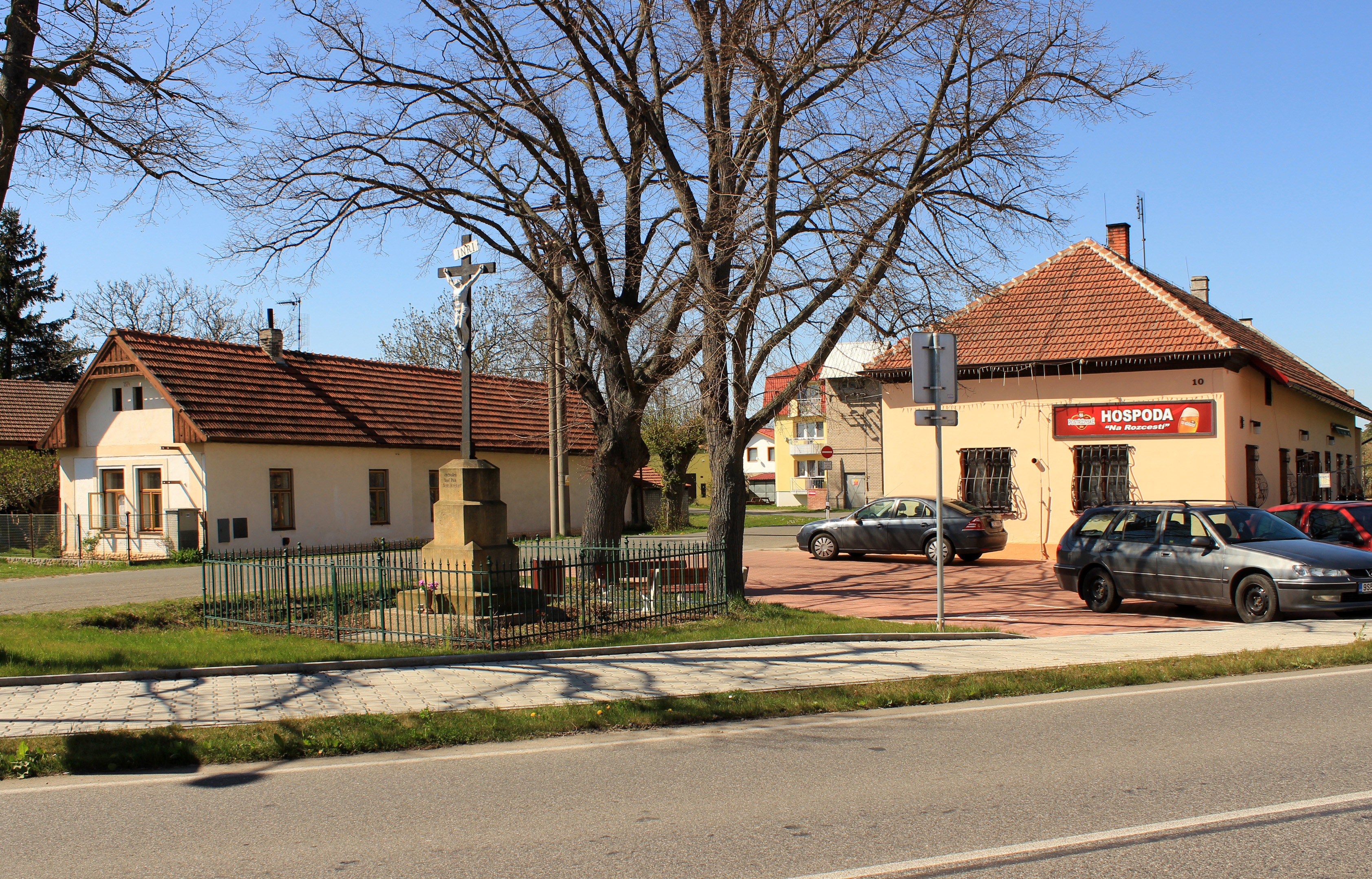 Small common in Zvěřínek, Czech Republic.